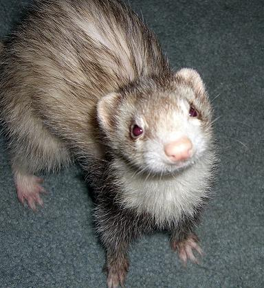 Female ferret Cinnamon Color by the name of Emily